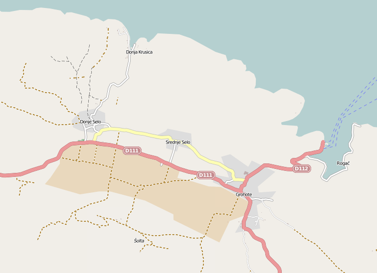 This map may be incomplete, and may contain errors. Don't rely solely on it for navigation.